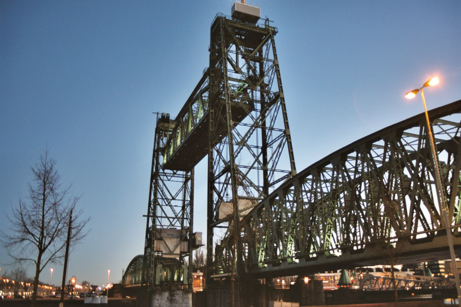 Photograph by: L.C. Almekinders (NL) 2004 Old Trainbridge crossing the Muse river, a monument since the digging of a traintunnel underneath